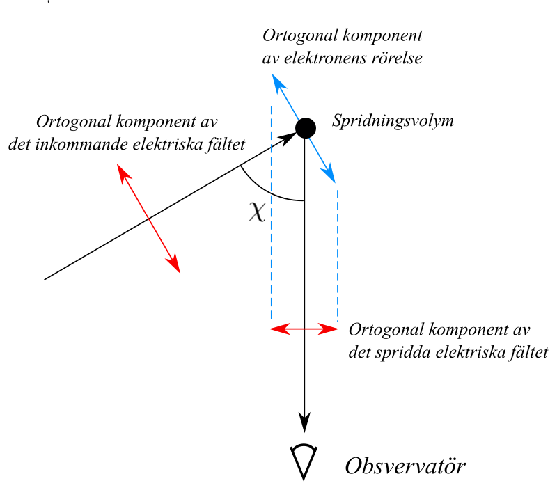 thomson scattering